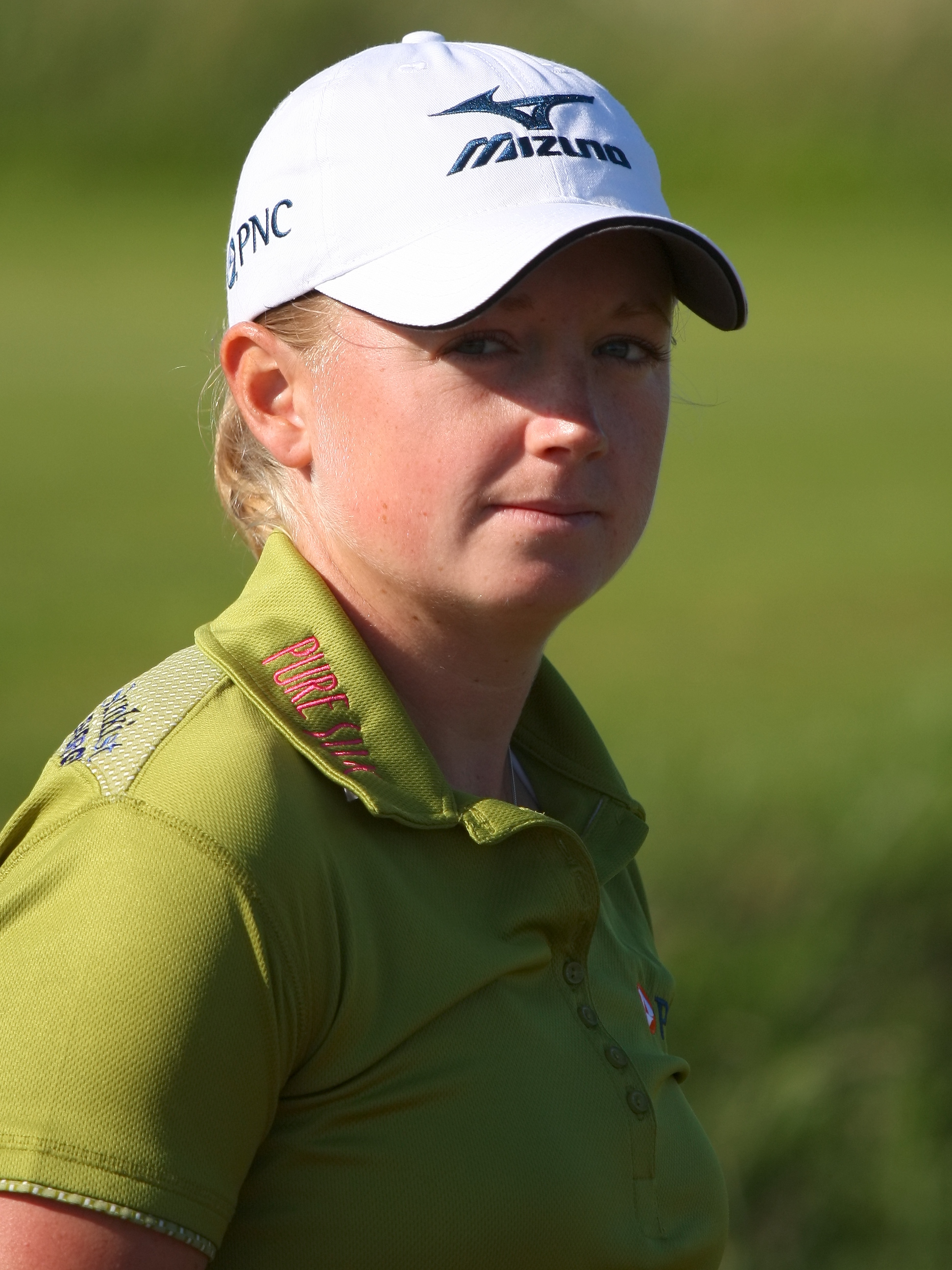 SOUTHPORT, UNITED KINGDOM - JULY 27: Stacy Lewis of USA walks off the 9th tee during pro-am round before 2010 Ricoh Women's British Open held at Royal Birkdale on July 27, 2010 in Southport, England. (Photo by Wojciech Migda)